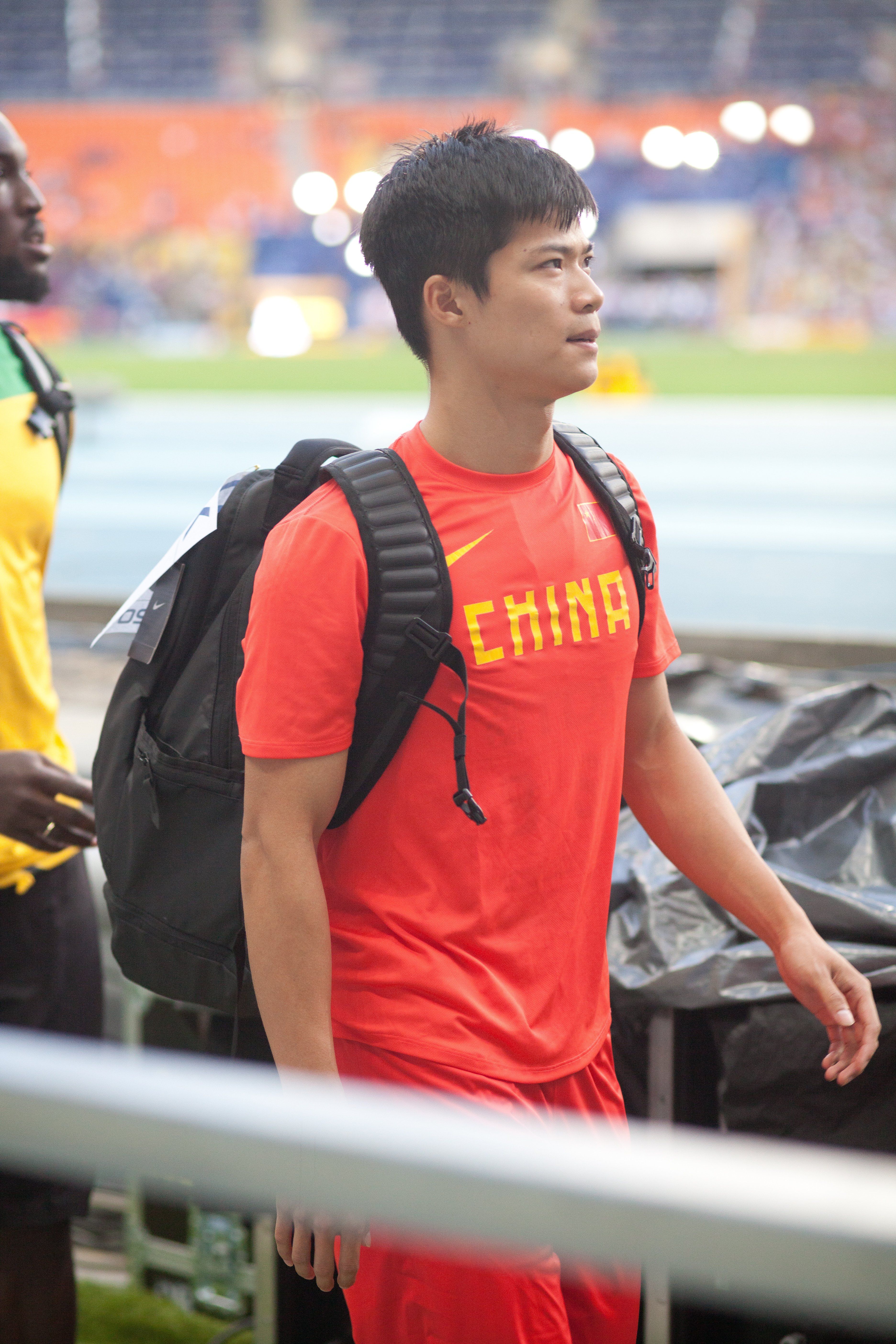 Su Bingtian during 2013 World Championships in Athletics in Moscow.